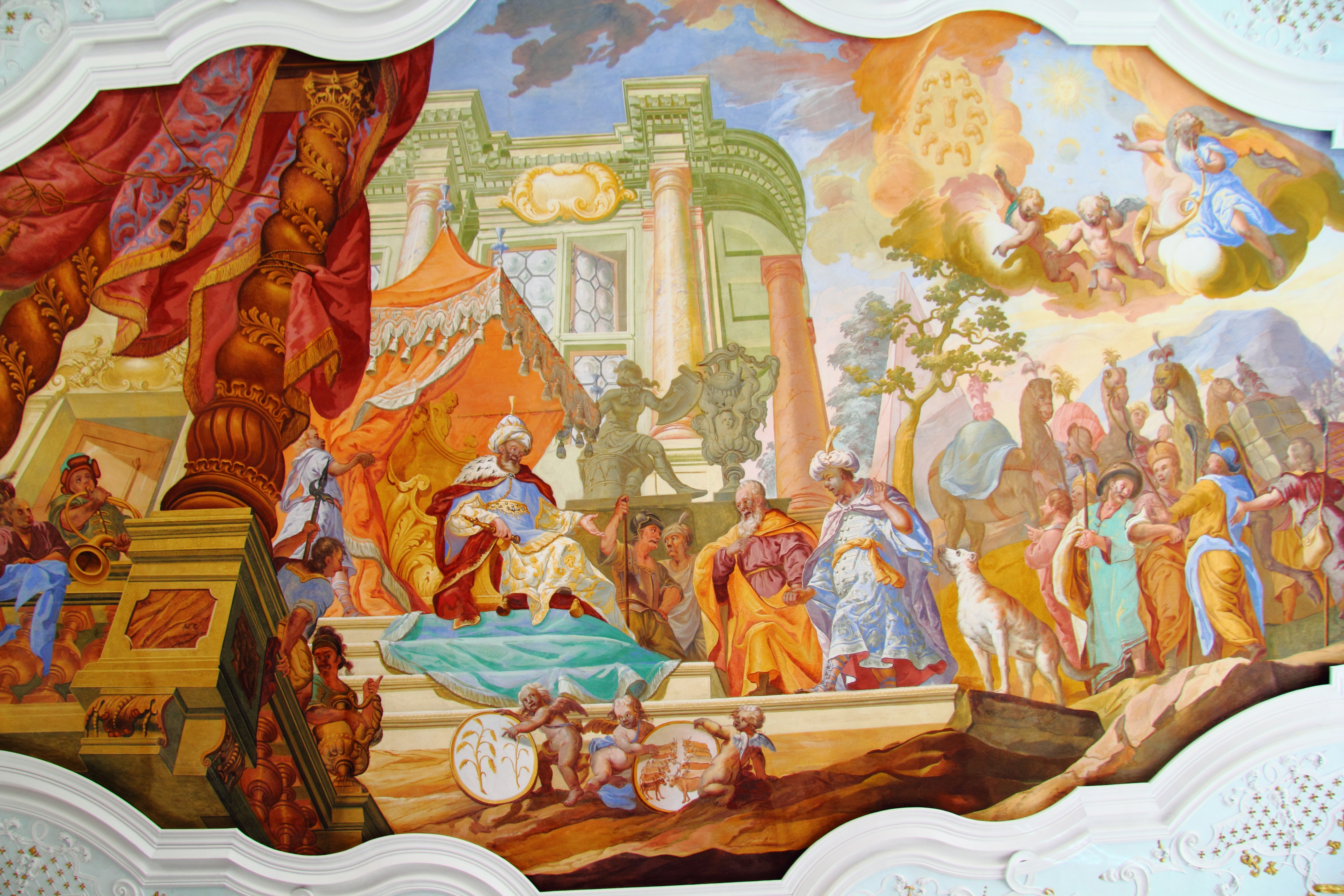 Wertheim am Main, Germany: Bronnbach Abbey